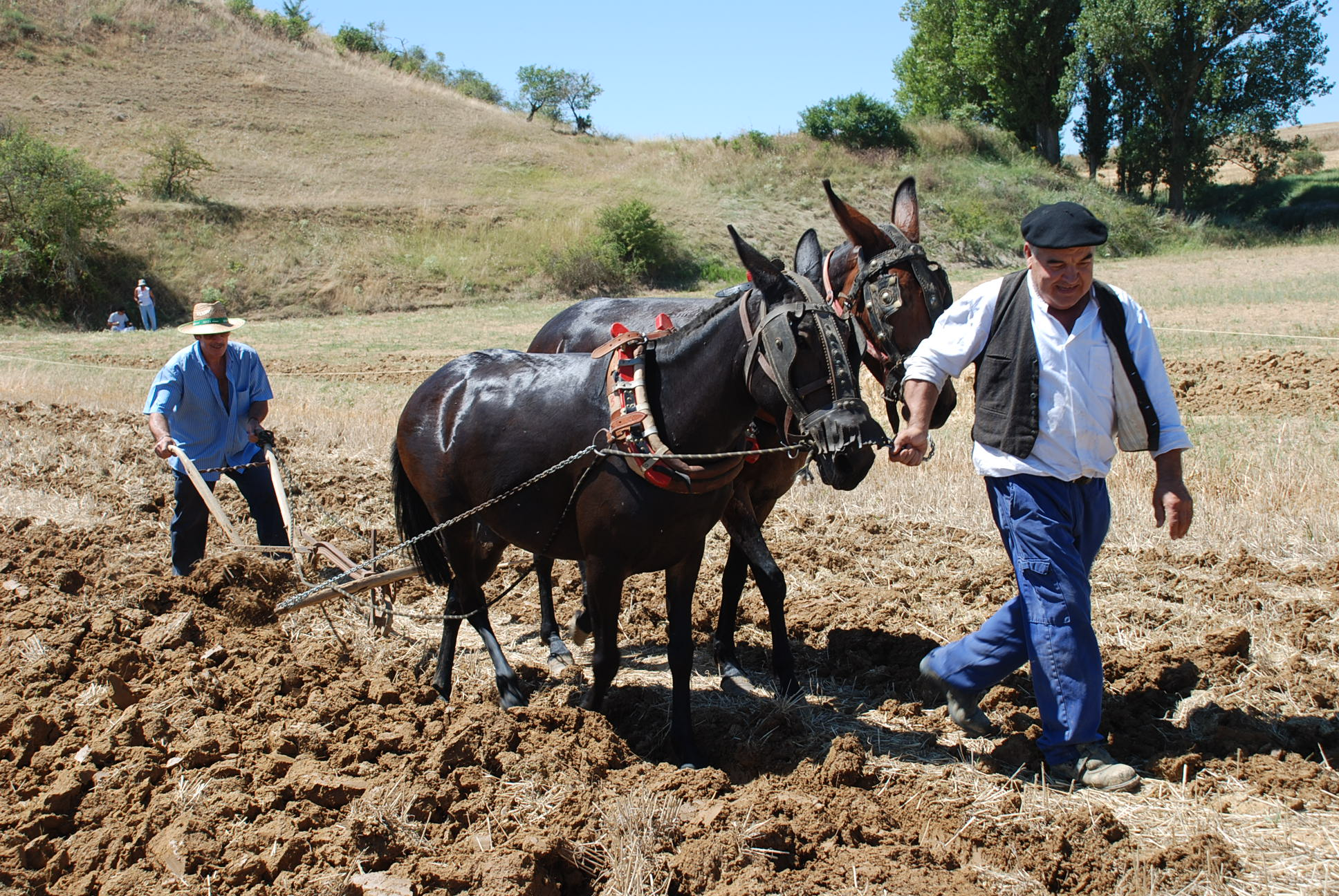 Plowing with mules in the Festival of La Trilla of Castrillo de Villavega (Palencia, Castile and León).